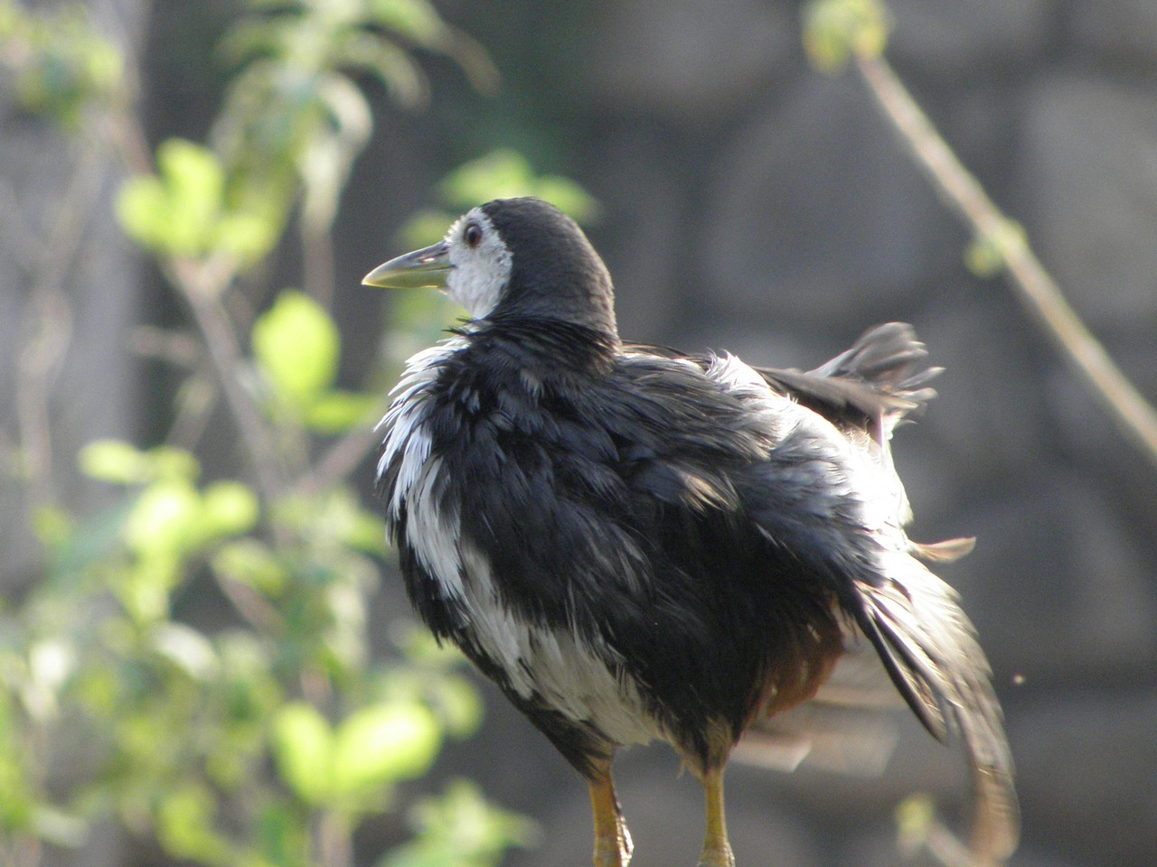 White-breasted Waterhen -after a bath , at Thrissur, kerala